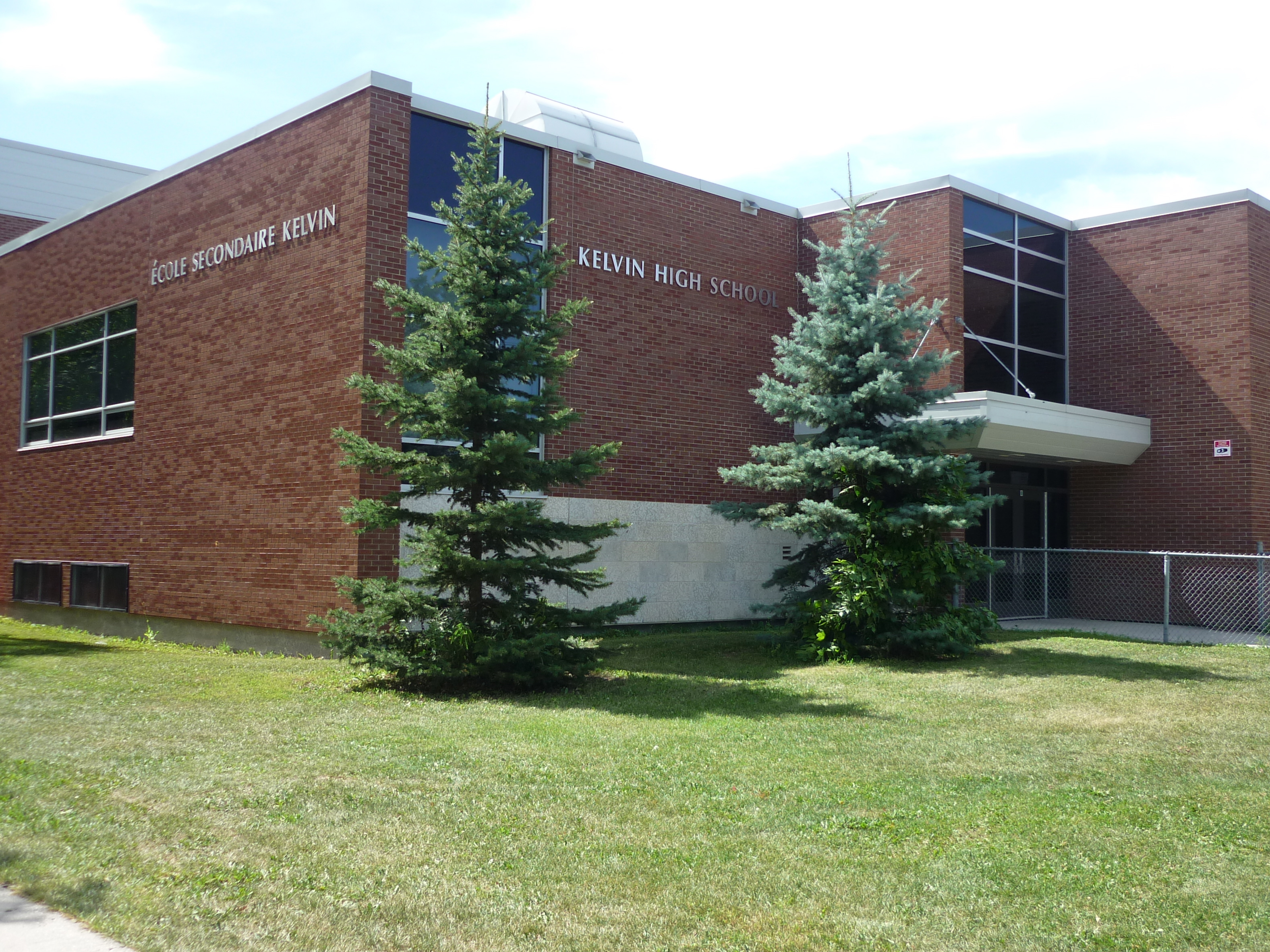 Kelvin High School as seen from the corner of Kingsway and Stafford. This photograph shows the full school name and the 2004 addition.